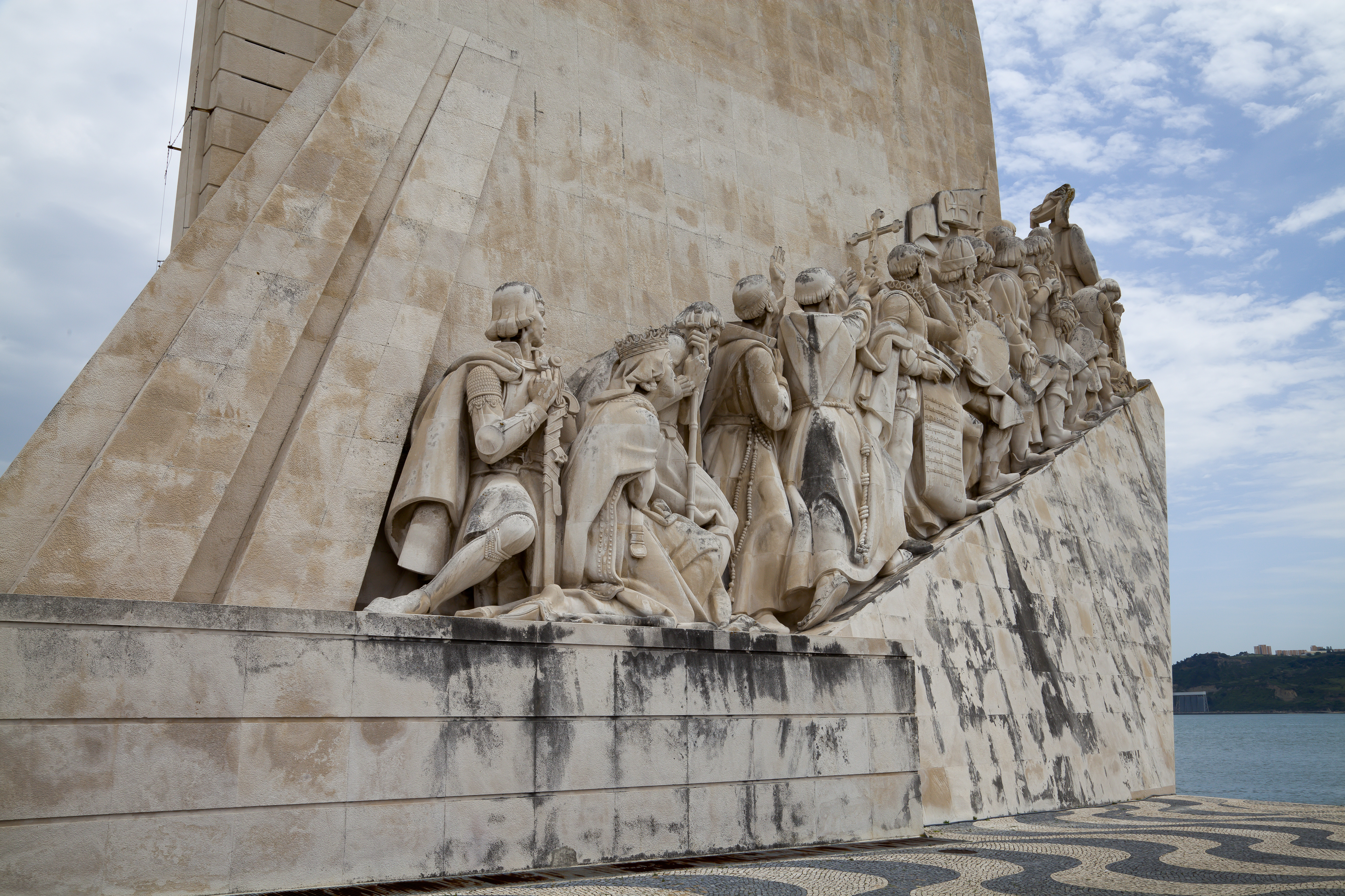 Monument to the Discoveries in Belém (Lisbon), Portugal